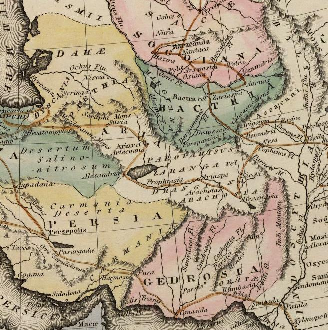 Map of the route of Alexander the Great in South Asia, expedition through through Gedrosia, Bactria, and Sogdiana part of a map entitled "Alexandri Magni Itinera" based upon Melish (1815) Atlas of Ancient Geography